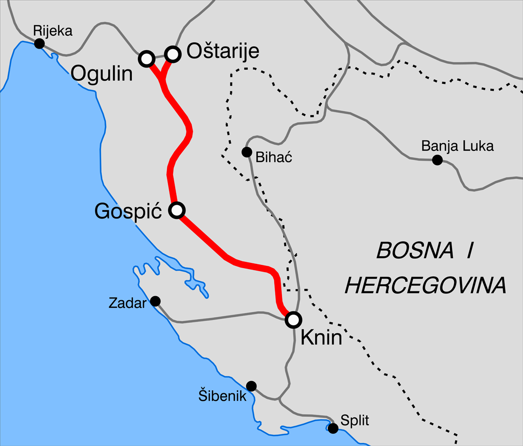 Map of the Lika railway